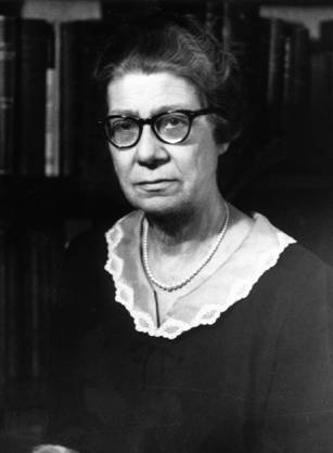 Virginia Kneeland Franz, pathologist and educator